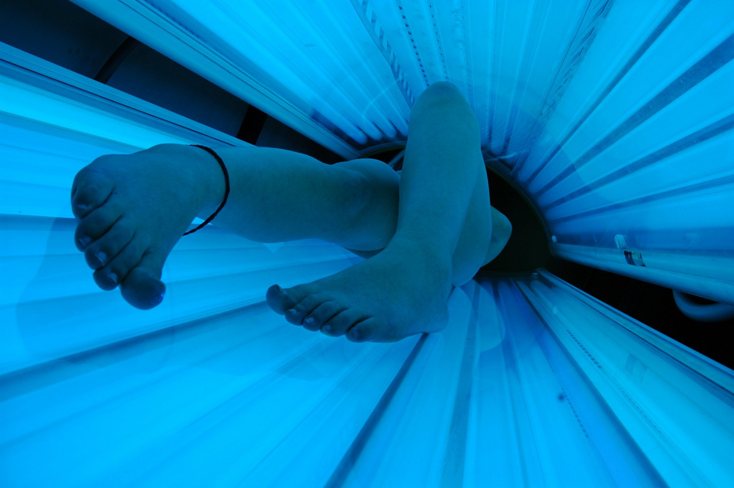 A tanning bed in use.